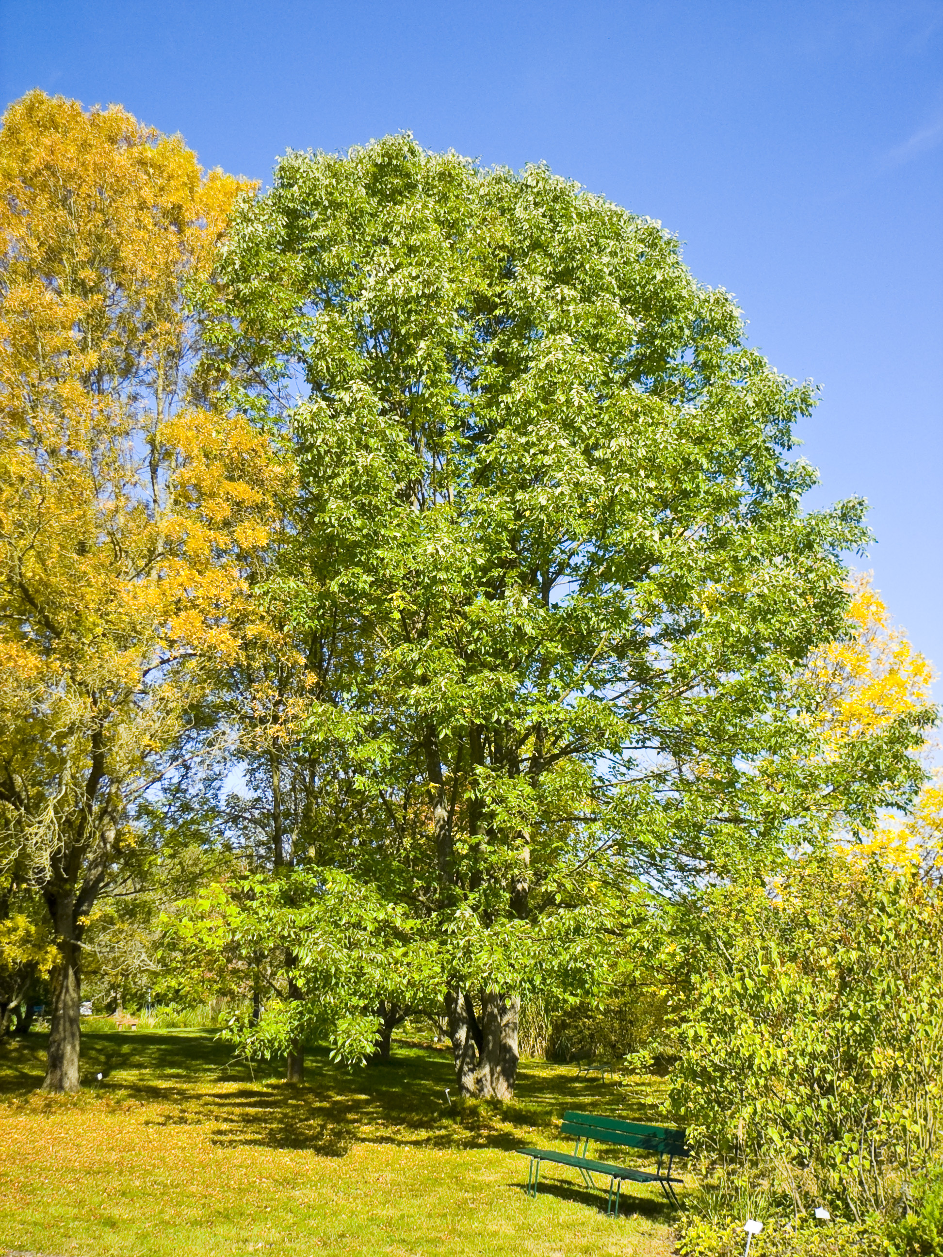 White Ash (Fraxinus americana) in the New Botanical Garden Marburg, Hesse, Germany